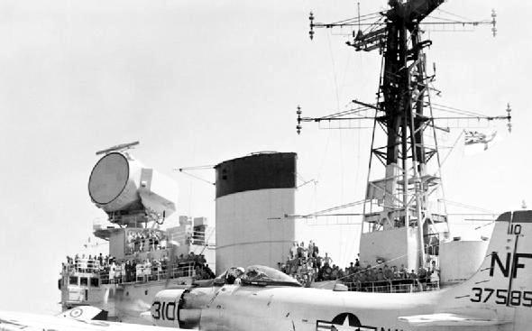 Close up on the island, showing the Type 984 radar A U.S. Navy Douglas AD-6 Skyraider (BuNo 137585) from Attack Squadron VA-52 "Knight Riders" landing aboard the Royal Navy aircraft carrier HMS Victorious (R38) during exercise "Crosstie" in the South China Sea, November 1961. VA-52 was assigned to Carrier Air Group 5 (CVG-5) aboard the USS Ticonderoga (CVA-14) for a deployment to the Western Pacific from 10 May 1961 to 15 January 1962.